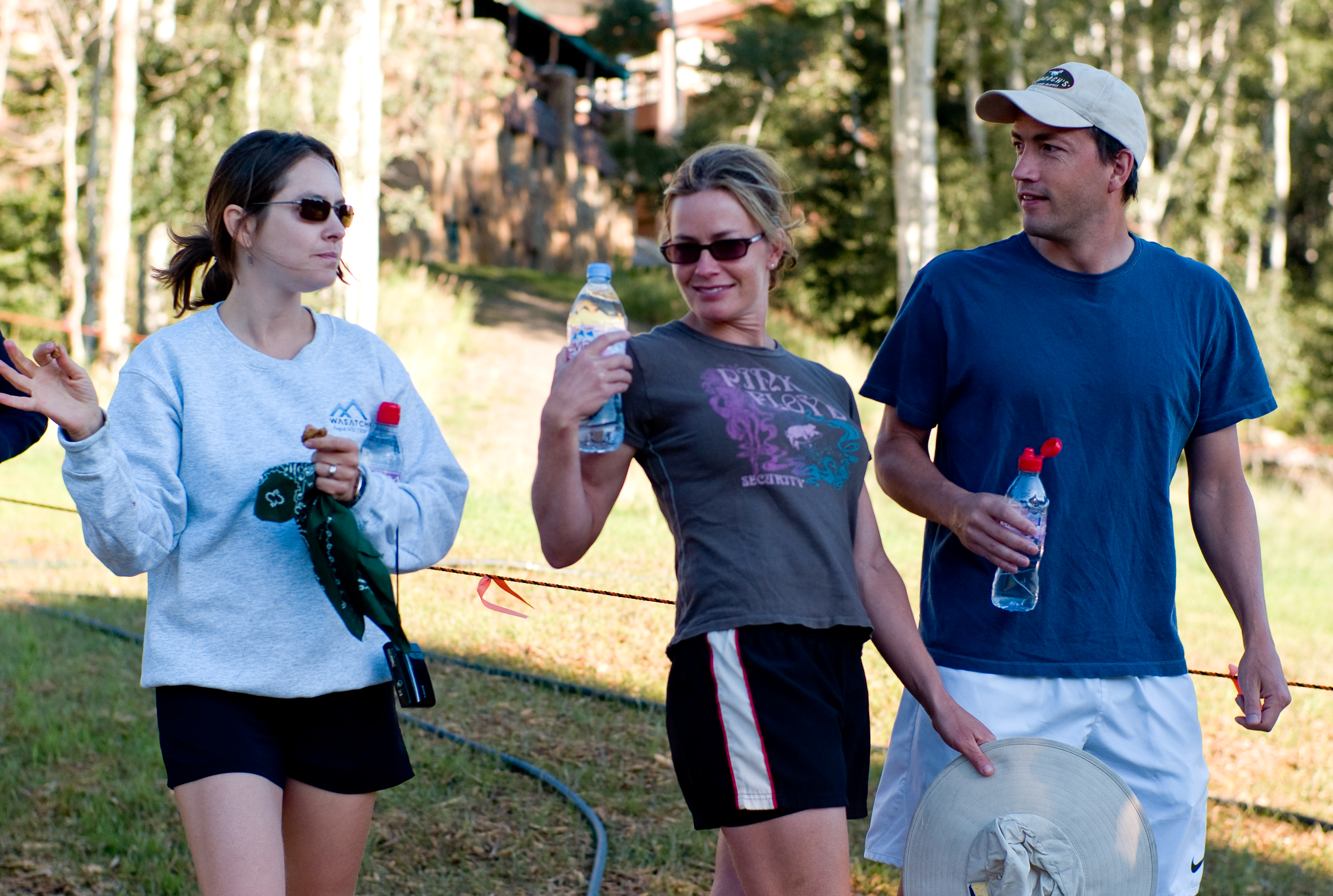 Bettina Neuefeind, Lisa Shue and Andrew Shue